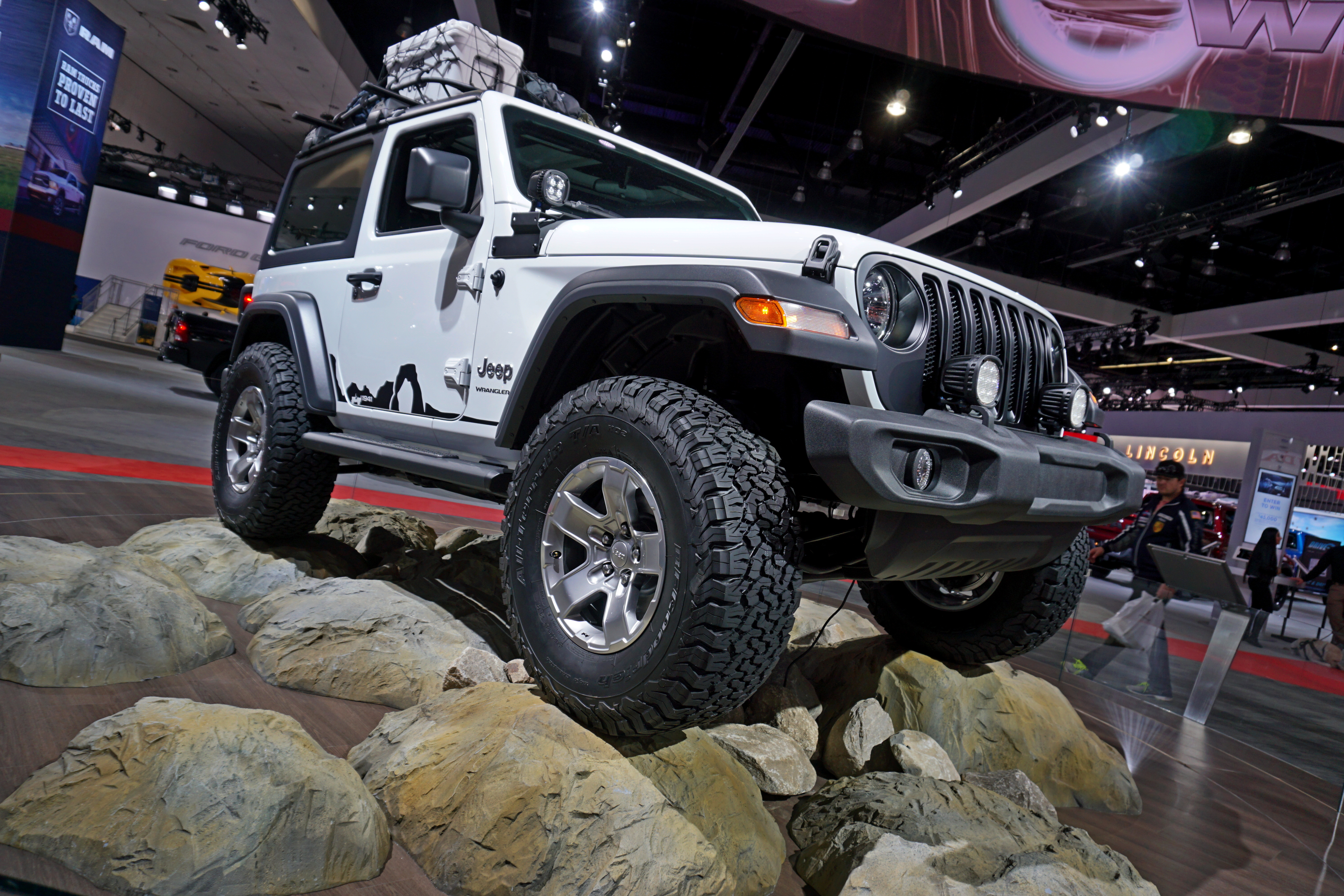 A 2018 JL model Jeep Wrangler at the 2017 Los Angeles Auto Show.